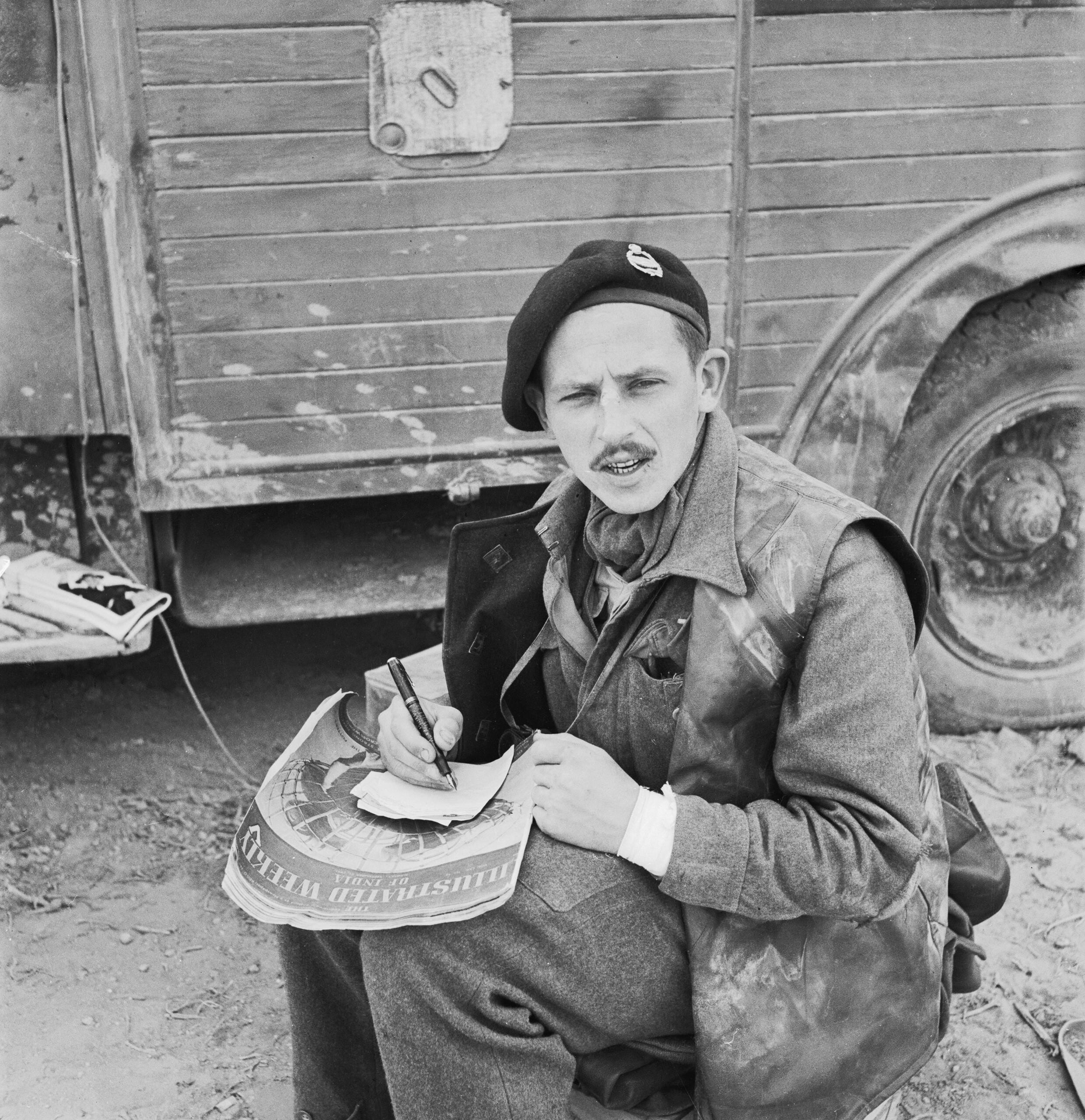 Photograph of Philip John Gardner VC.